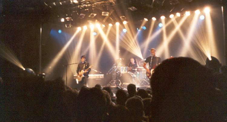 Muse playing at Melkweg The Max, Amsterdam, Netherlands.